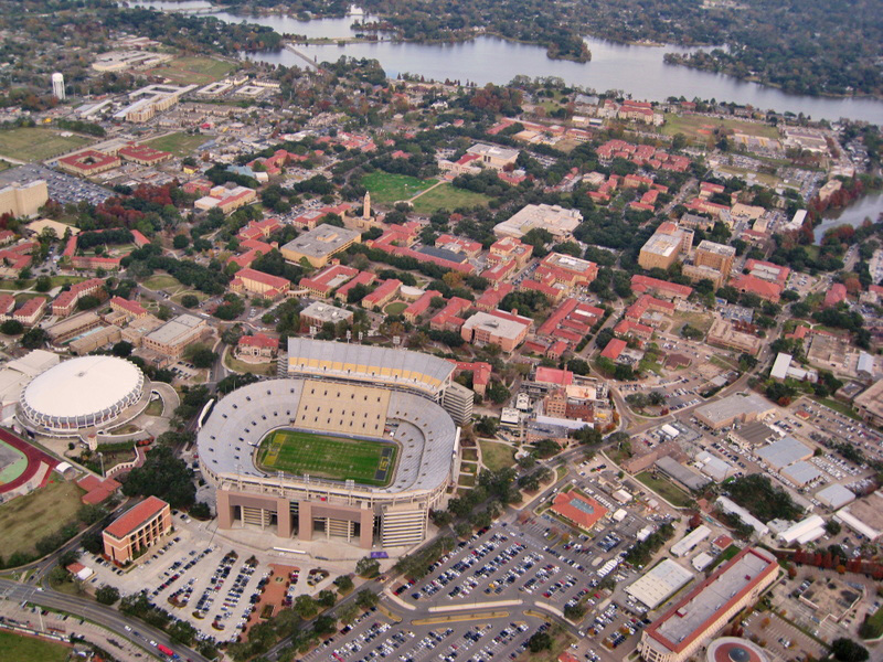 Aerial shot of Louisiana State University's campus